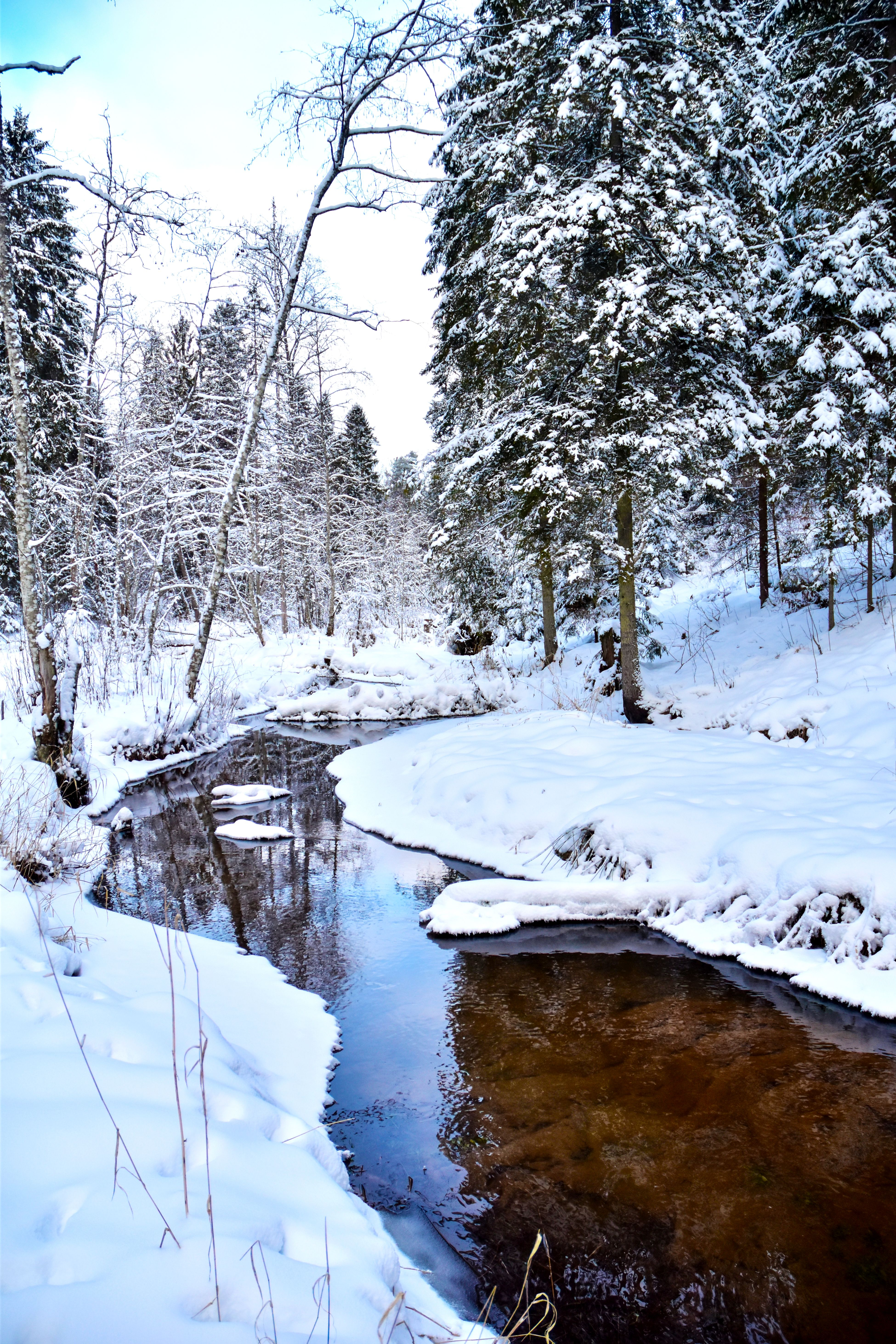 Tikste valley, Tõrva parish, Estonia